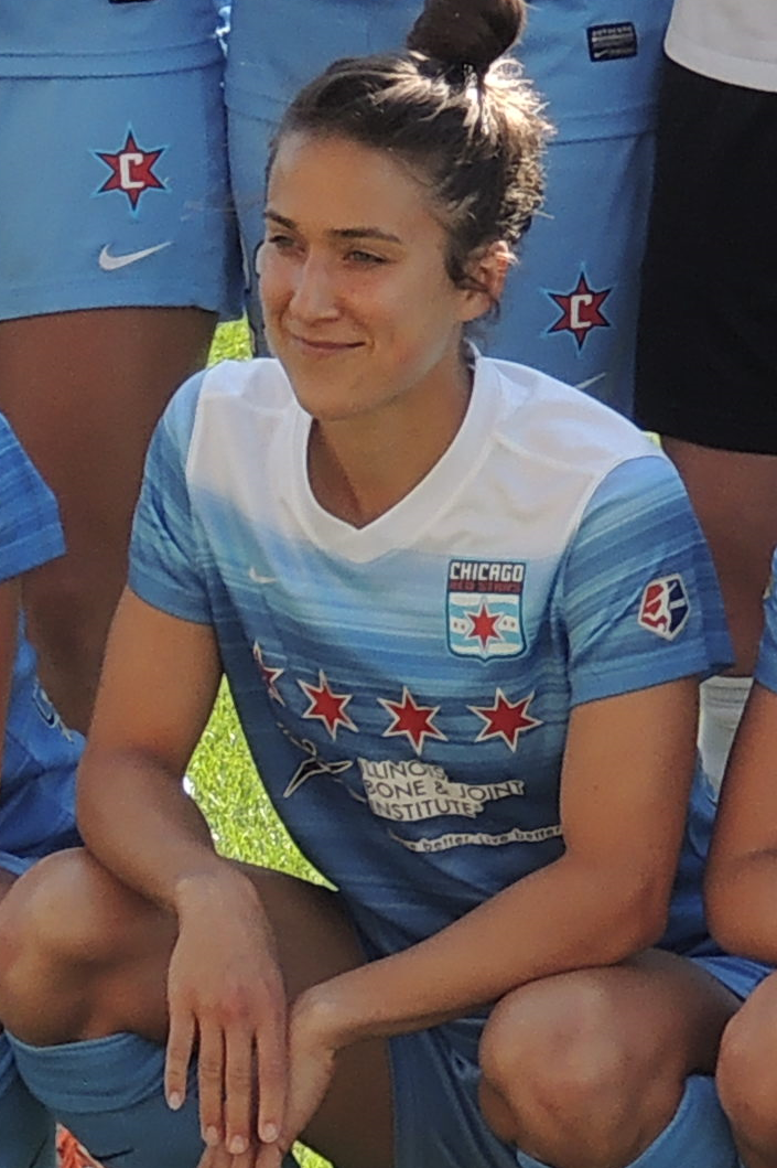 June 12 2016 - Chicago Red Stars starting lineup against Portland Thorns FC